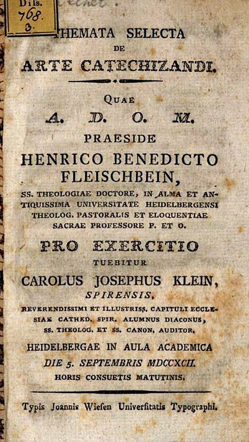 Theologische Diplomarbeit des Priesters Karl Klein (1769-1824) an der Heidelberger Universität bei Professor Heinrich Benedikt Fleischbein (1747-1793), 1792